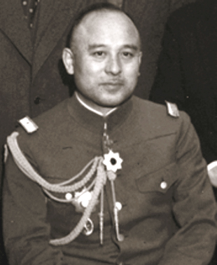 Masataka Yamawaki (1886-1974) – Japanese General, military attaché of Japan to Poland 1934-1935